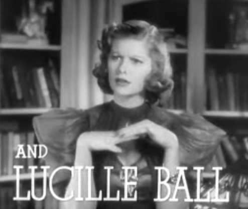 Screenshot of Lucille Ball from the trailer for the film Stage Door.